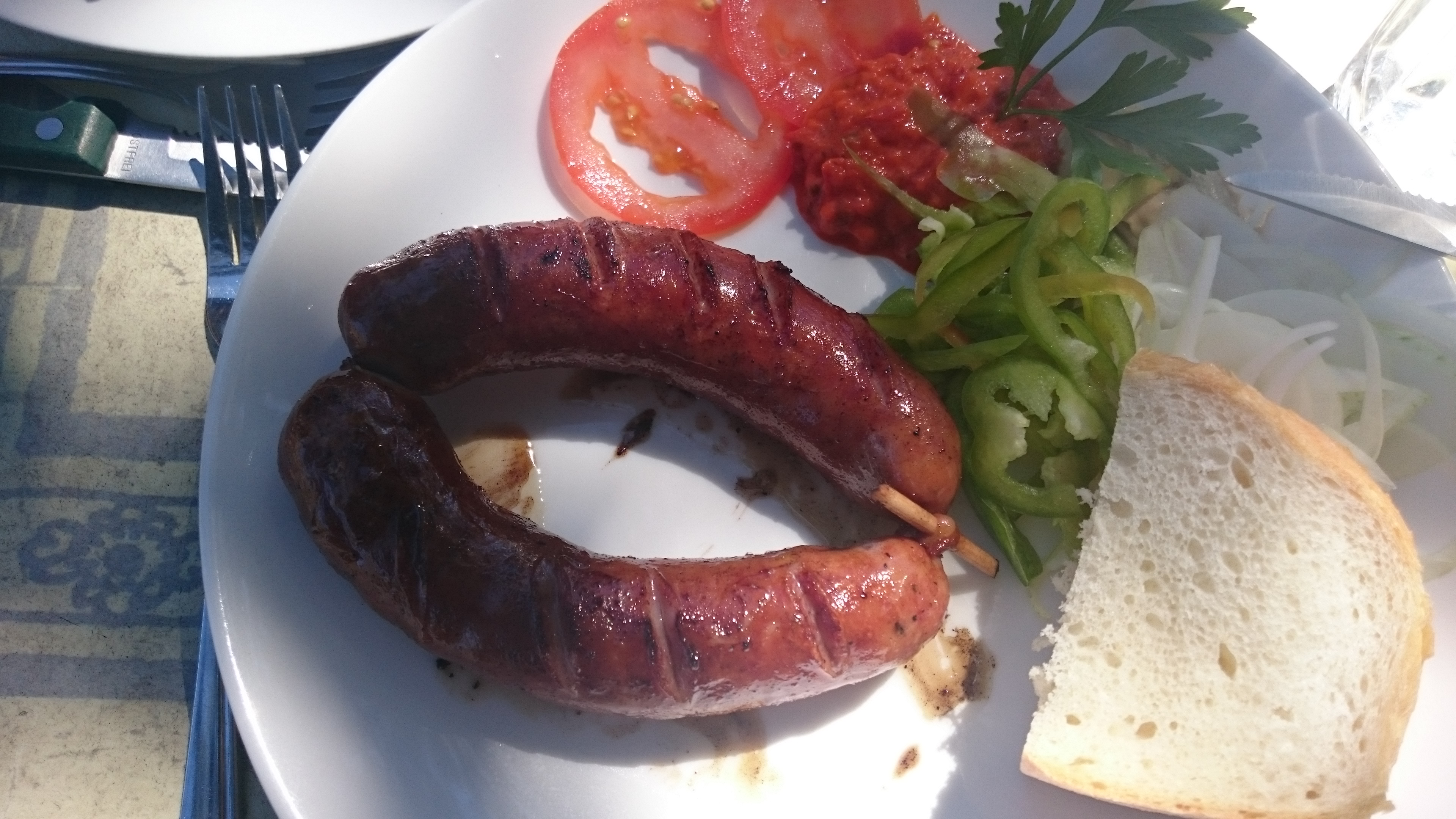 Traditional Slovenian sausage. Picture taken in Bohinj, Slovenia